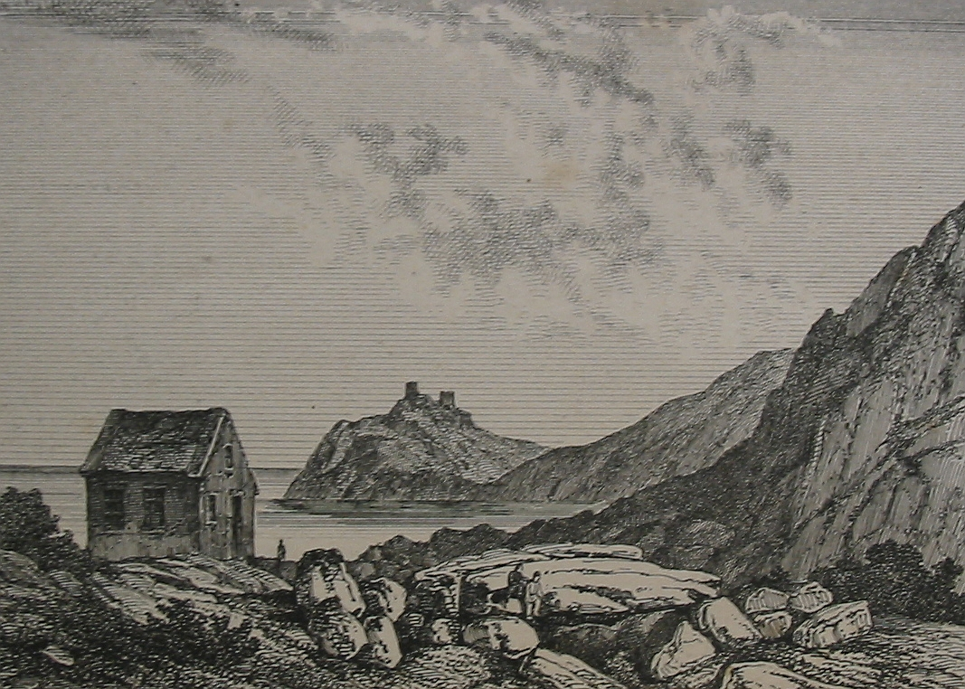 Illustration by Philip John Ouless (1817-1885) from guidebook - La Pouquelaye du Couperon, Rozel